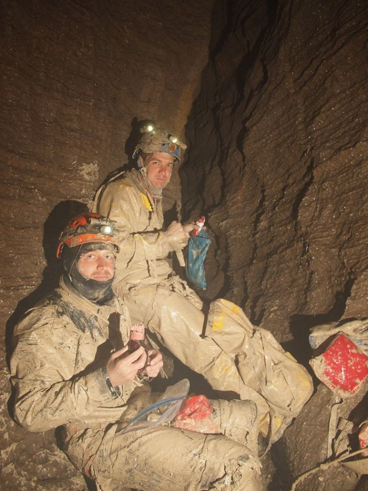 Near the known bottom of Tears of the Turtle cave(as of 2016).